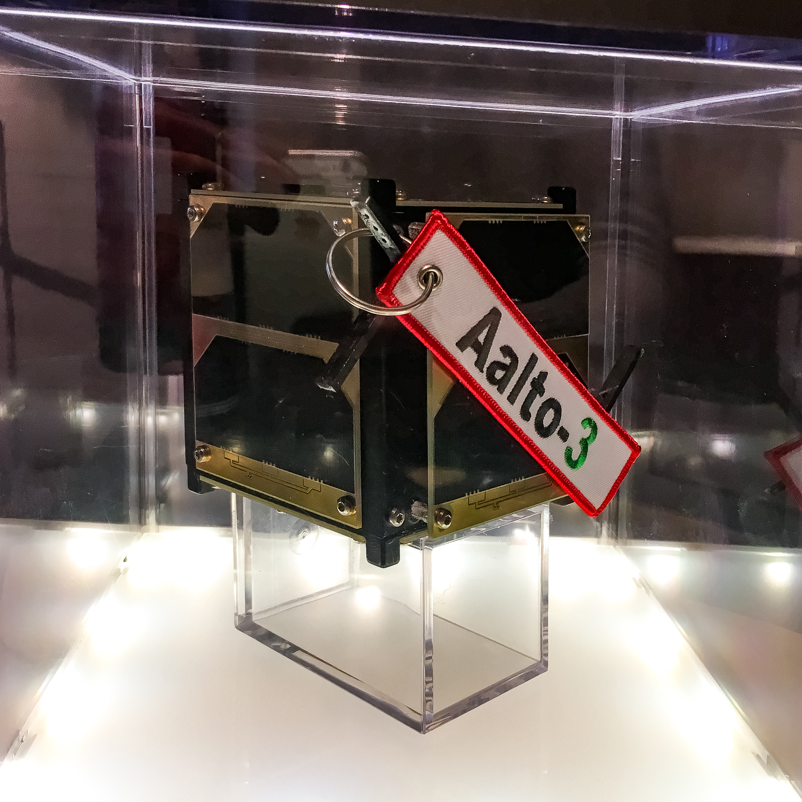 Aalto-3's mock-up at the Finnish Satellite Workshop 2019 in Otaniemi, Espoo, Finland.